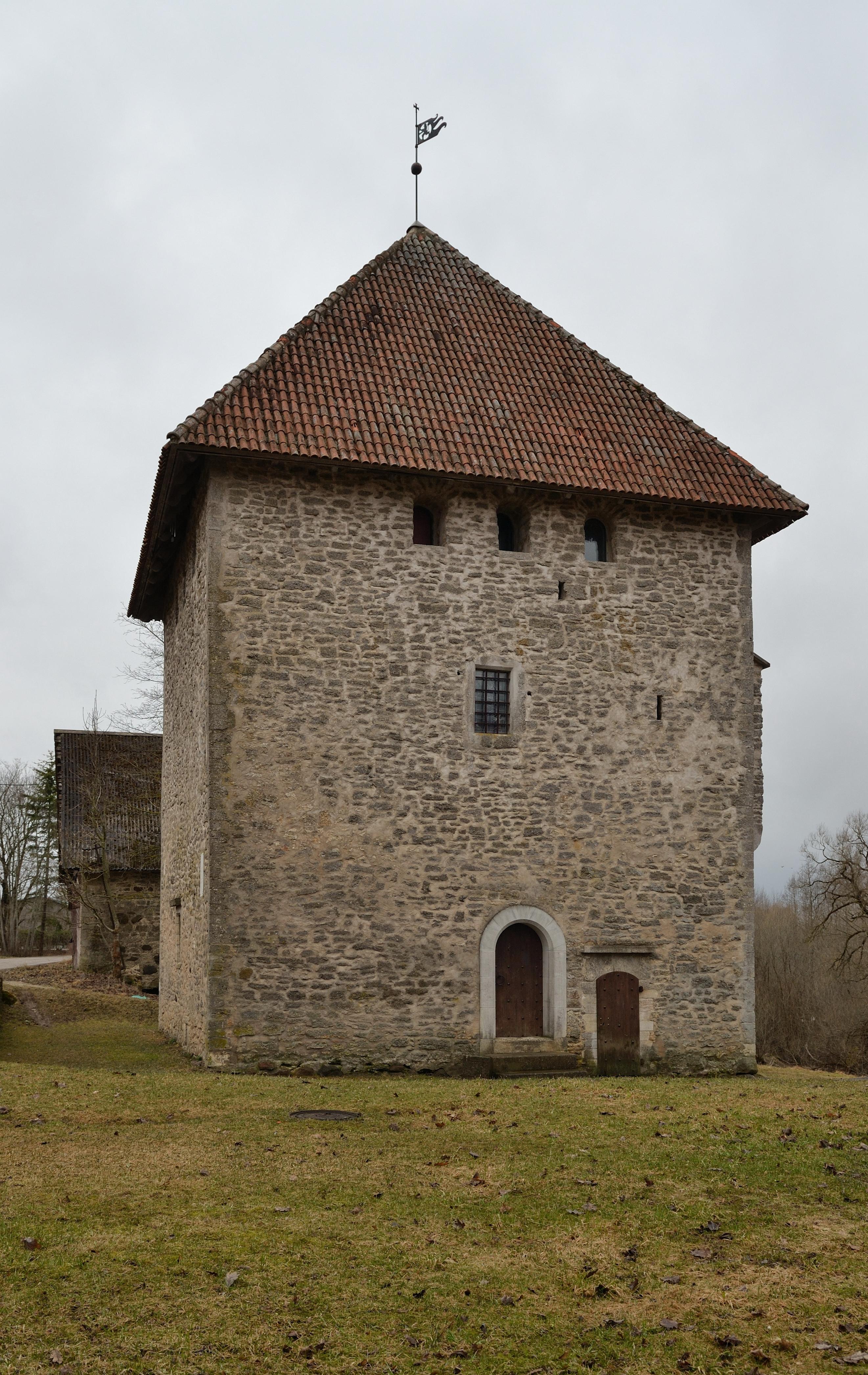 Vao Castle